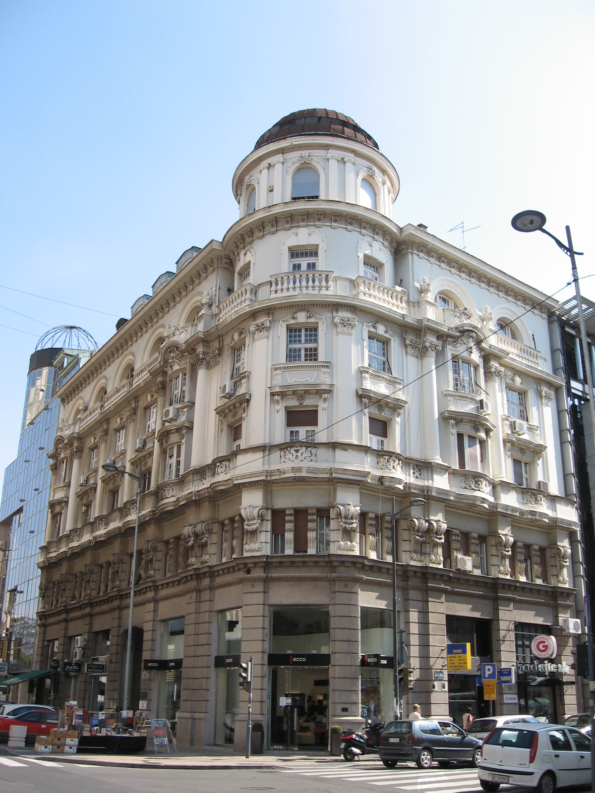 Building in Dorćol , Belgrade